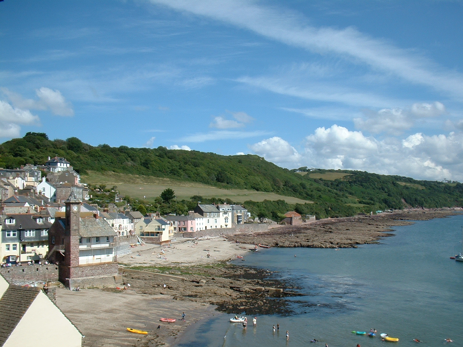 View of Kingsand village, Cornwall, UK.